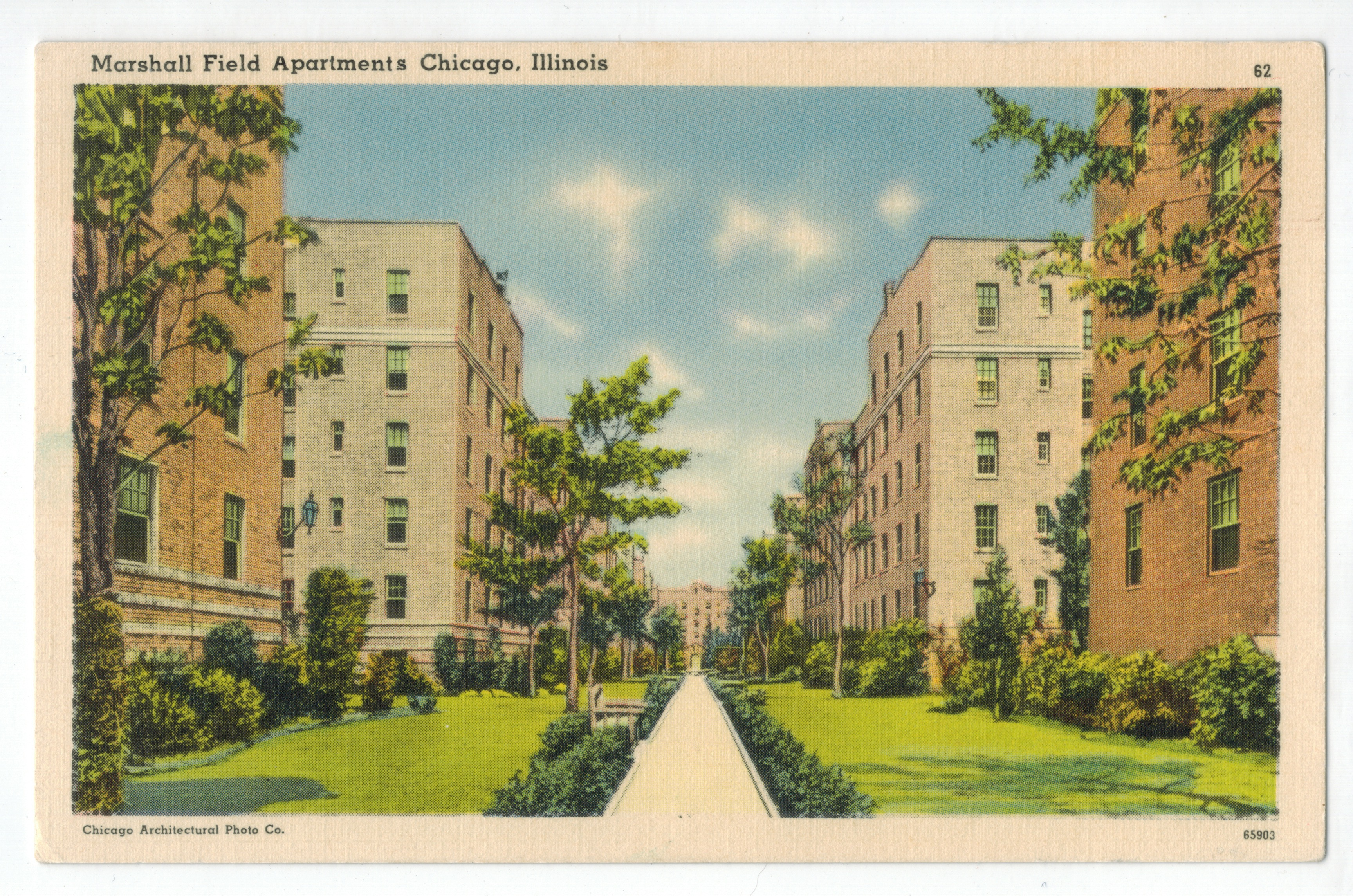 Marshall Field Garden Apartments (FRONT)